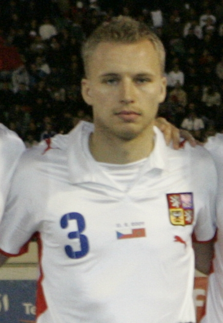 Michal Kadlec (Czech Republic) before the friendly match against Morocco on February 11, 2009